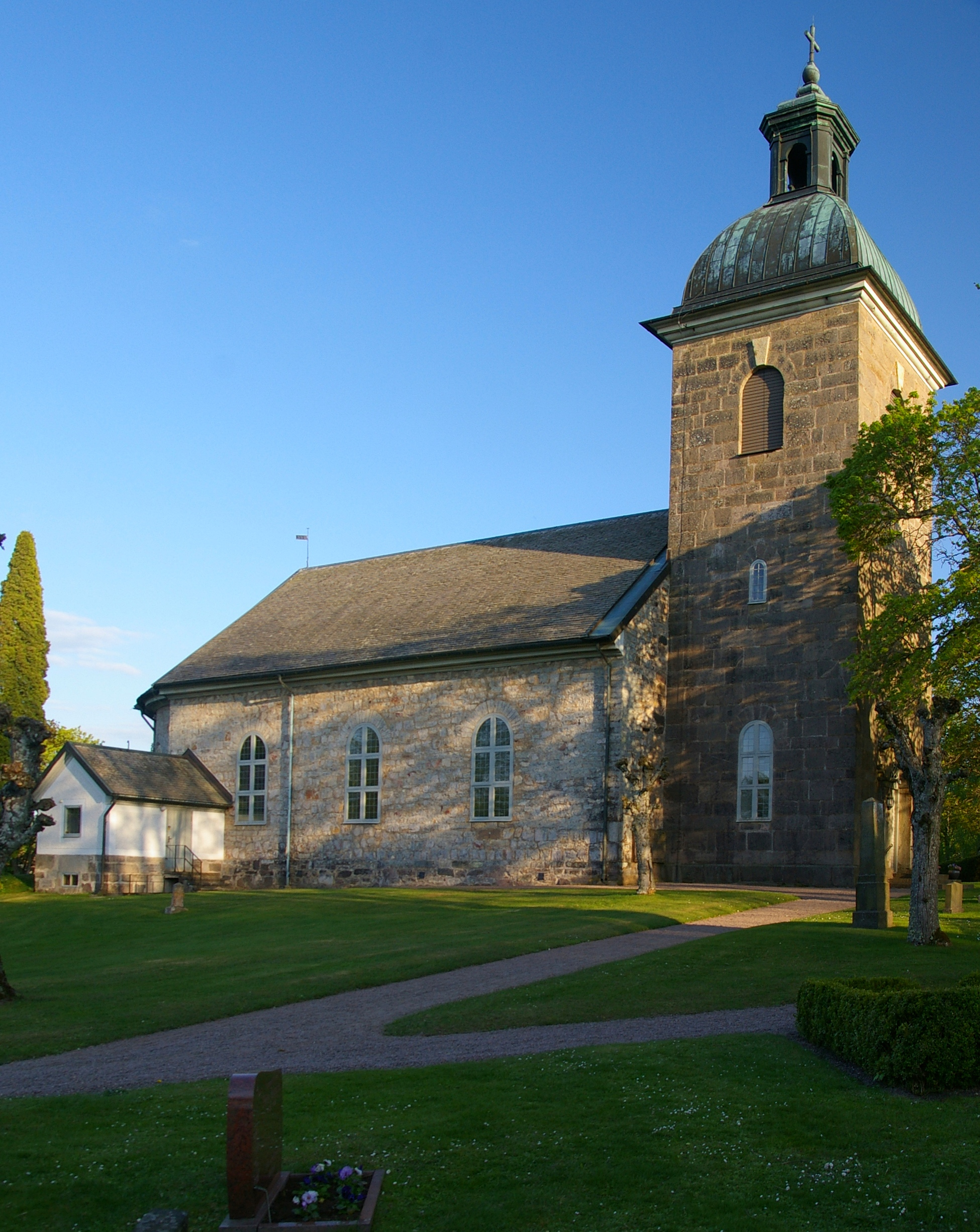 Bjärklunda kyrka (swedish:Bjärklunda church) in Skåning hundred in Västergötland and Skara municipality in Västragötaland county, Sweden.